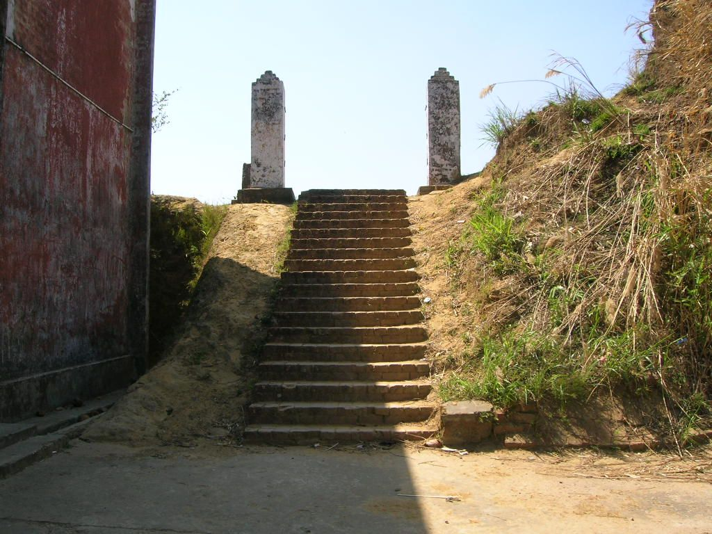 Picture of Sitakunda Mandir